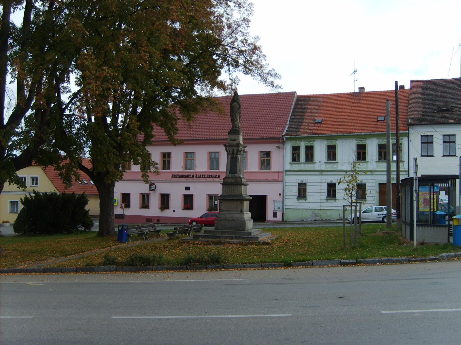 Restaurant and St.Wenceslas statue on the square in Čechtice.